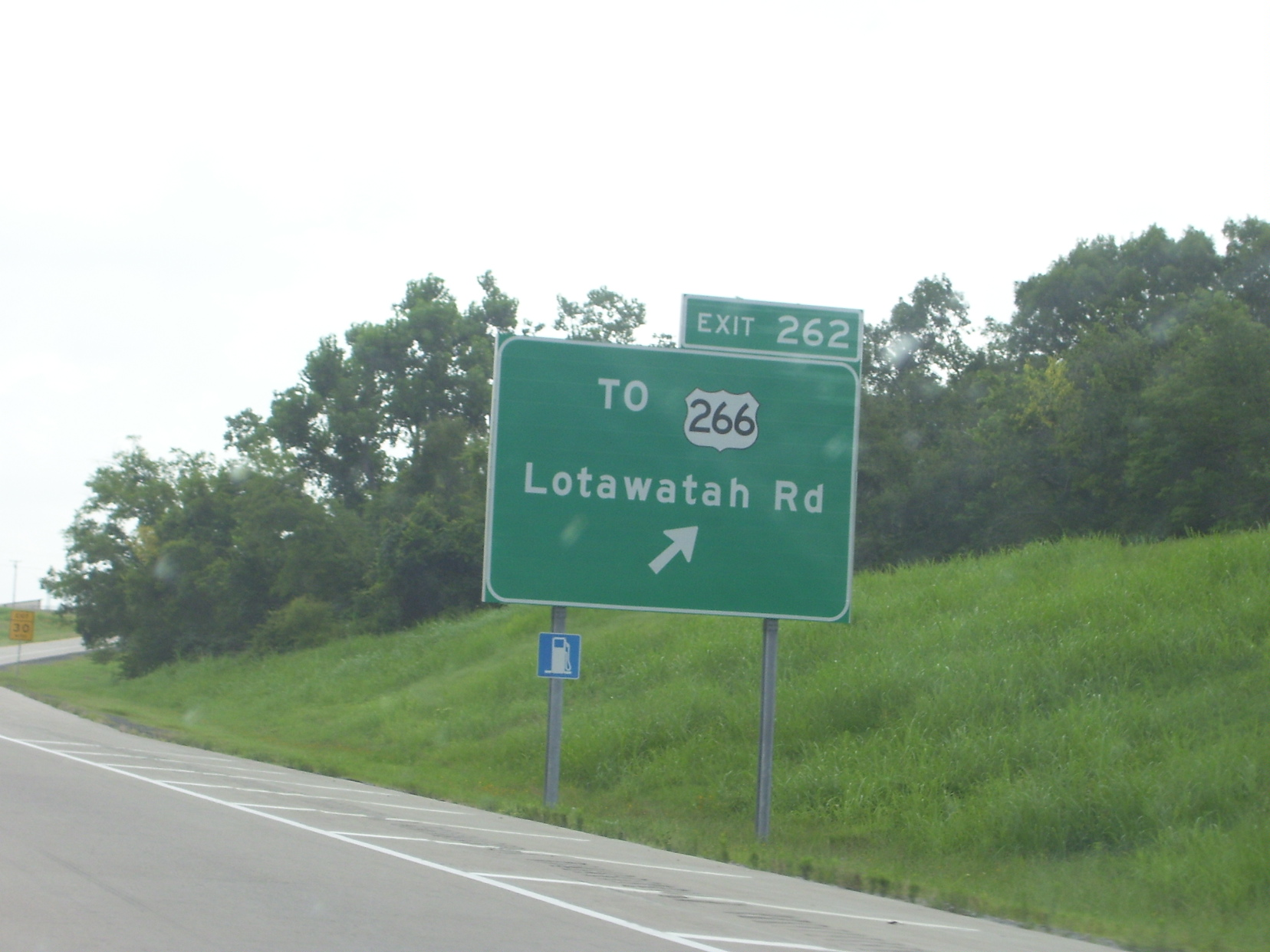 Exit sign on I-40 for Lotawatah Rd.